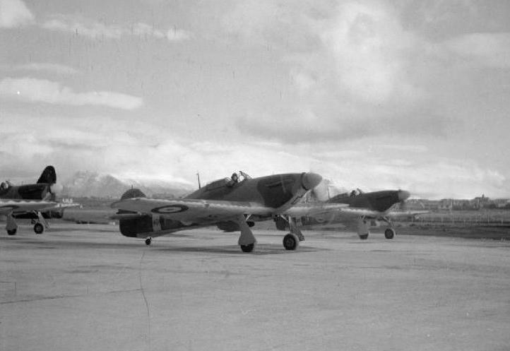 Hawker Hurricane Mark IIA Series 2s, Z4048 "O" and Z4639 "K", of No. 1423 Fighter Flight, preparing to take off from Reykjavik, Iceland.